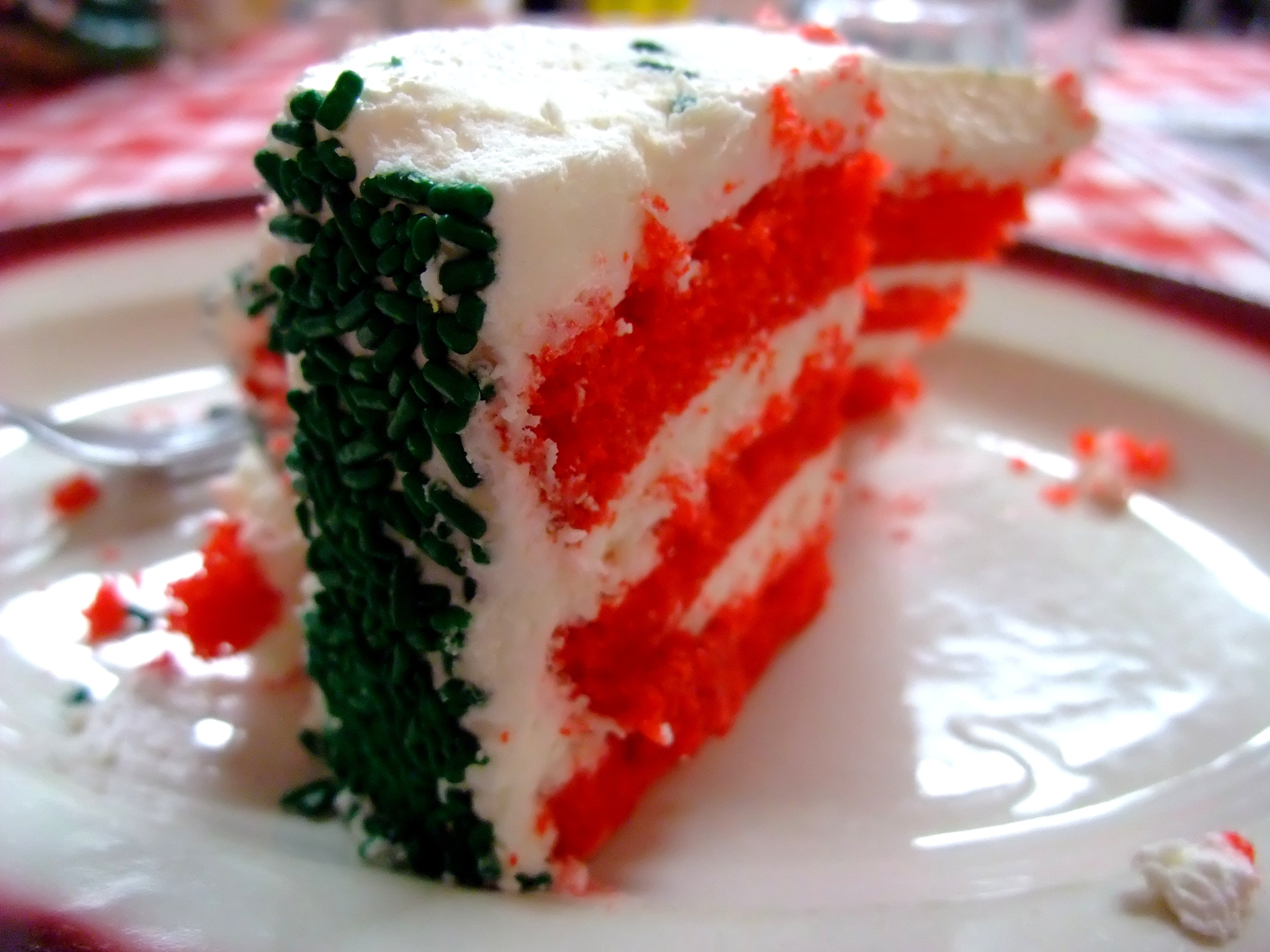 cake served in "buca di beppo"